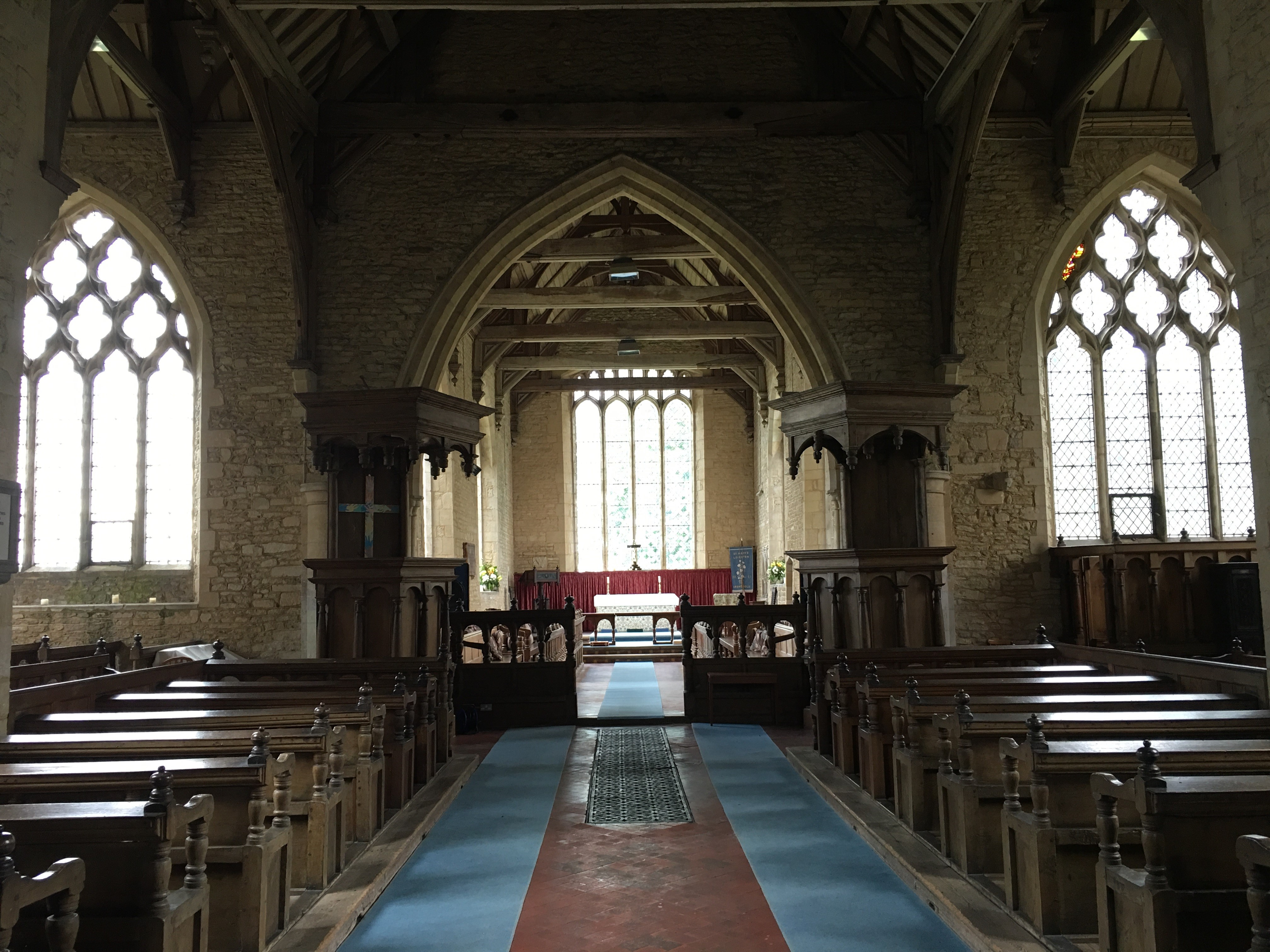 The interior of St Mary.